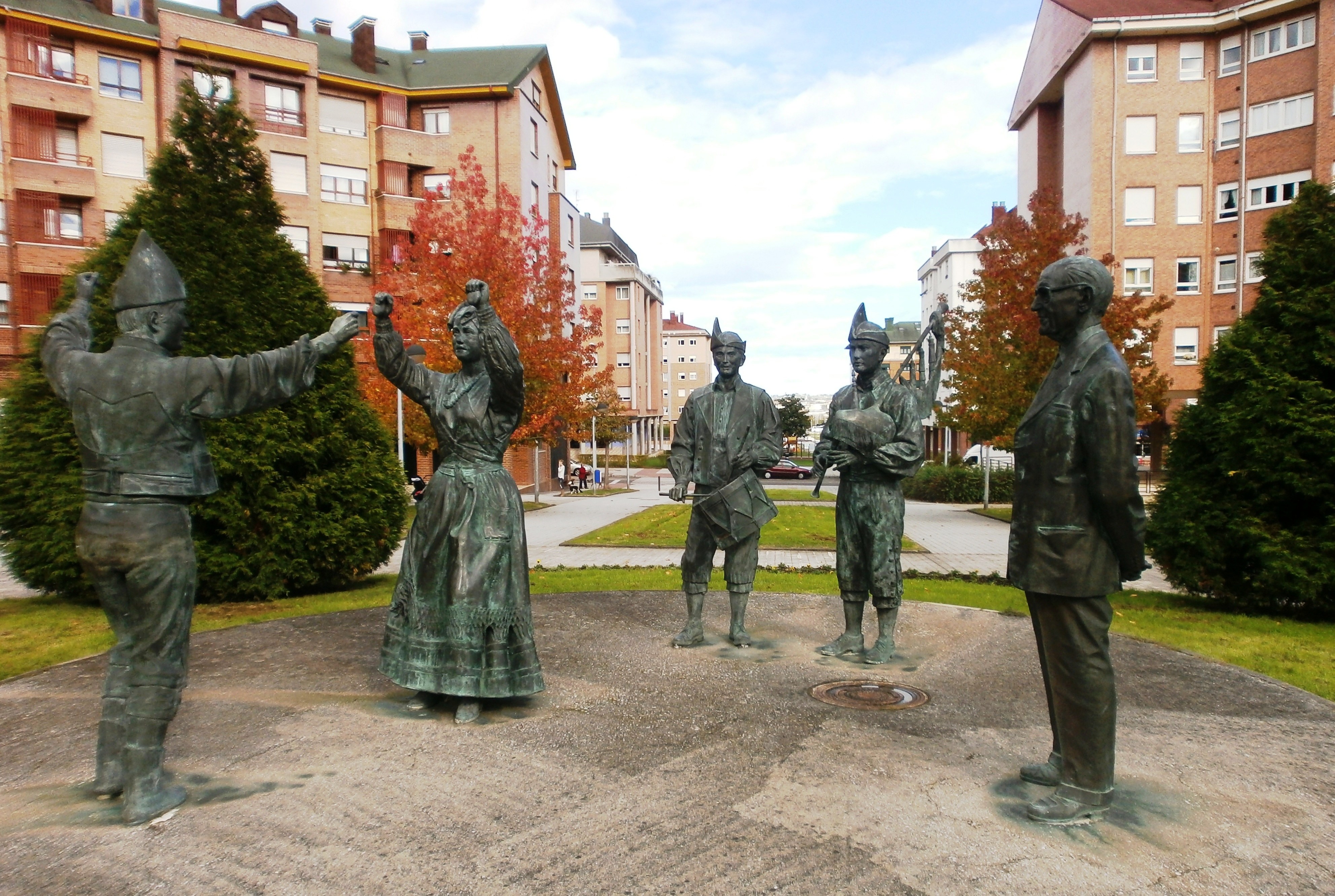 Esculturas en Oviedo al aire libre